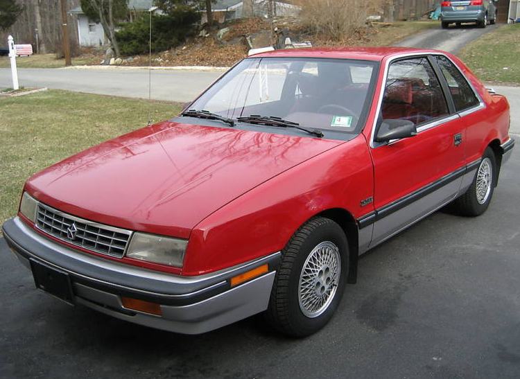 Plymouth Sundance Rallye Sport coupe, 1989